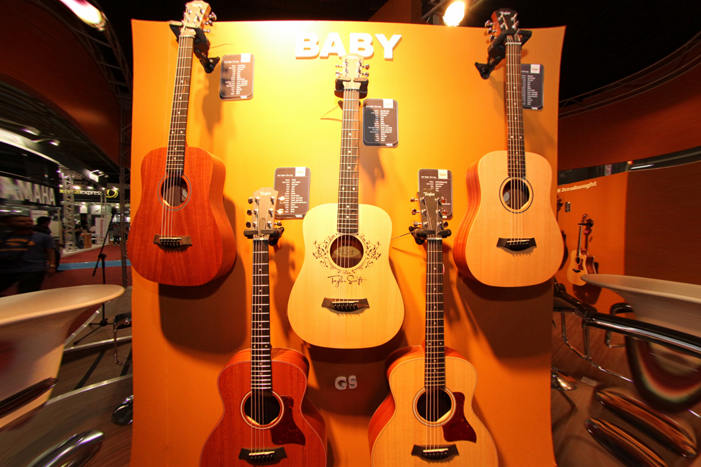 Taylor Swift Baby Taylor (center), Taylor Baby Taylor series (sides), & GS Mini (bottom) - Expomusic 2014 try to fix lens distortion version